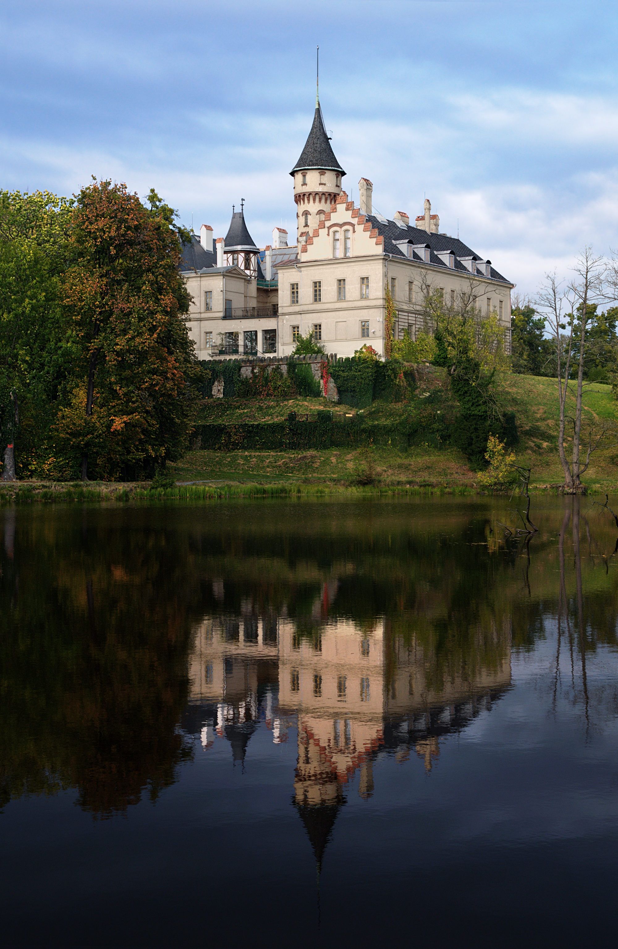 Castle Raduň near Opava, Czech Republic.